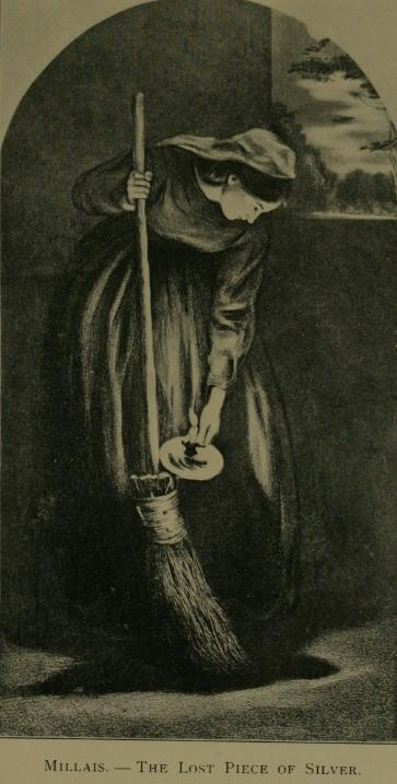 Wood engraving c. 1864 by John Everett Millais illustrating the parable of the Lost Coin.